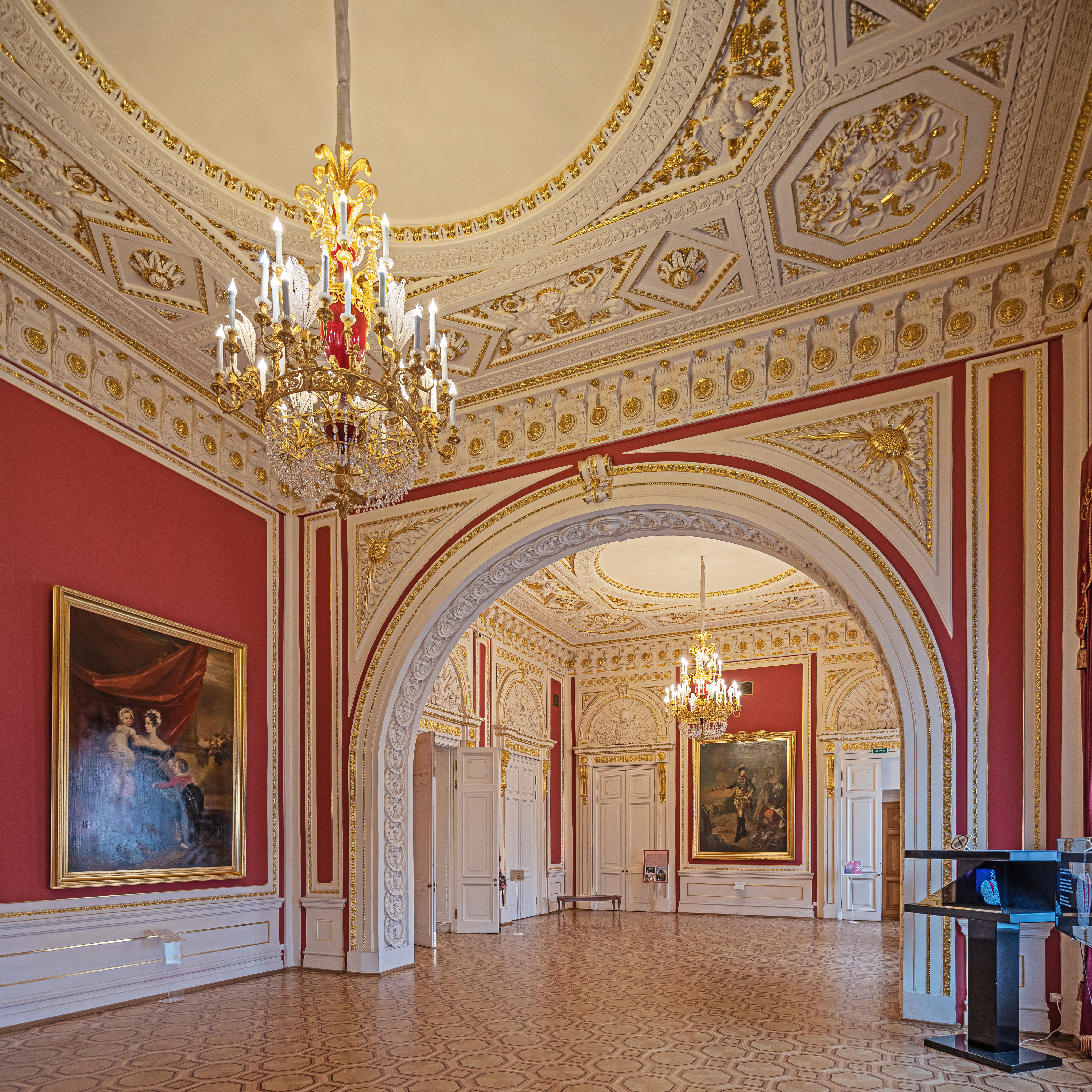 Interiors of St. Michael Castle in Saint Petersburg, Russia